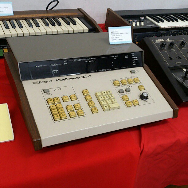 Roland MicroComposer MC-8 (1977) — numerical input digital music sequencer Synthesizer Festa 2012 in Shinjuku